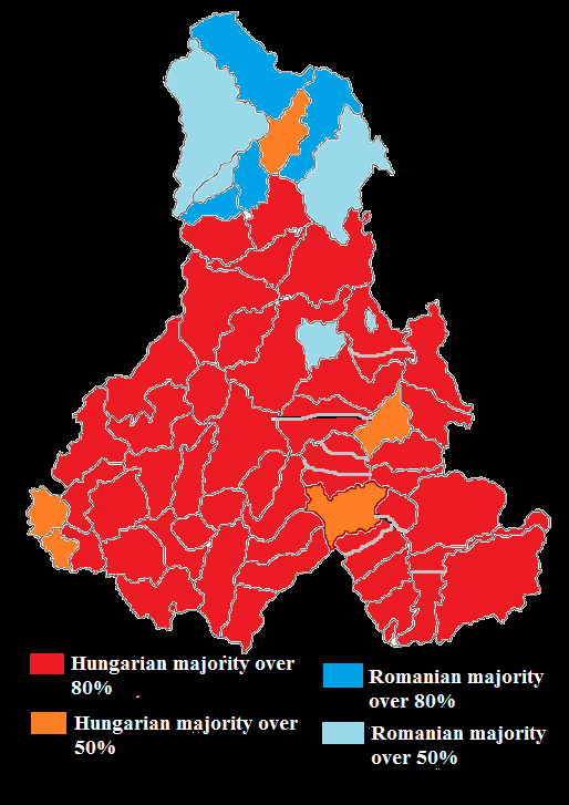 Ethnic map of Harghita County, based on the 2011 census.